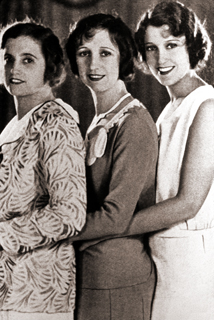 This is a photo of Jeanette MacDonald and her sisters